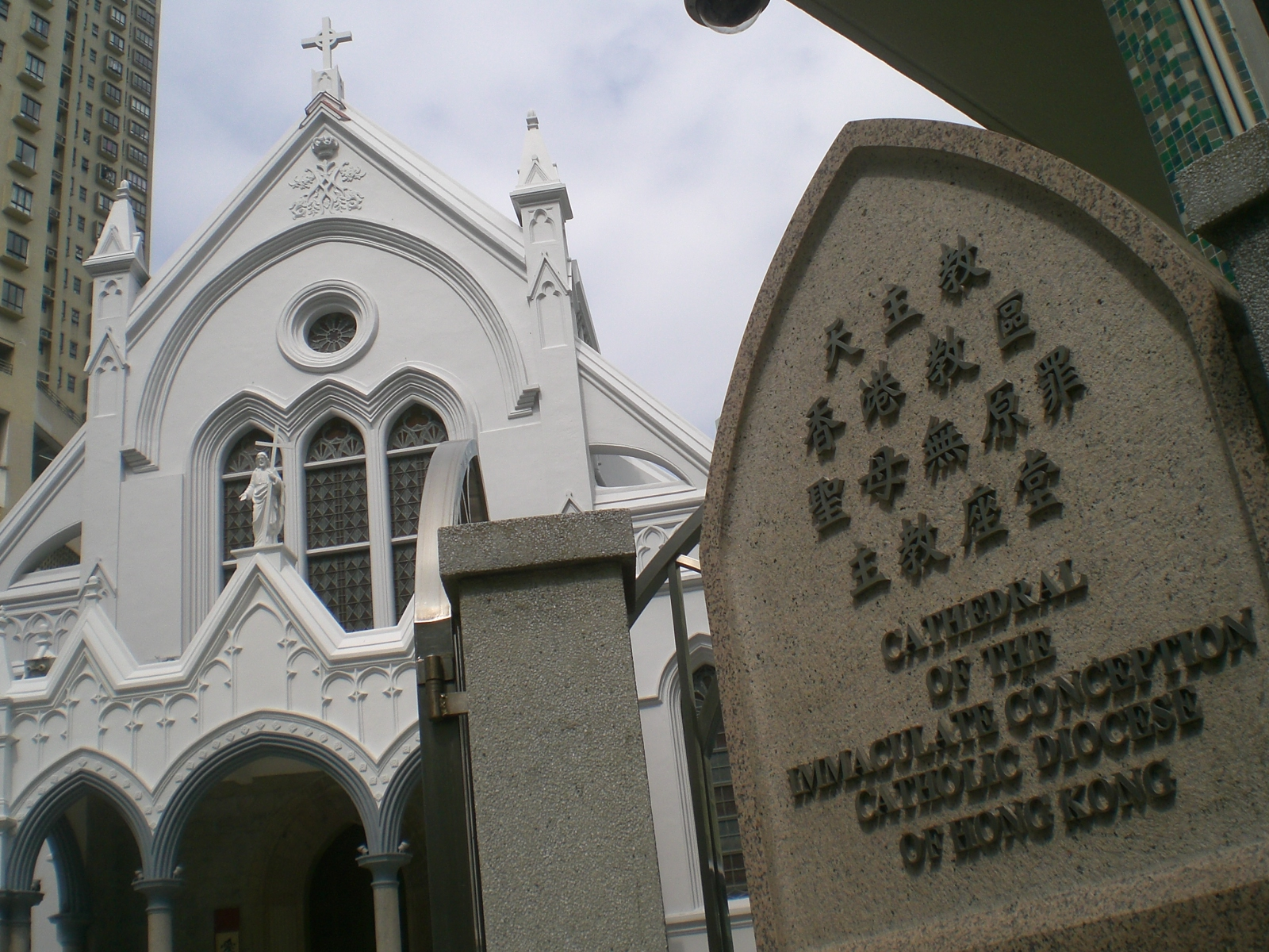 Description= 堅道香港聖母無原罪主教座堂 Immaculate Conception Cathedral of Hong KongCaine Road Hong Kong Source= self-made Author= JackieCheu